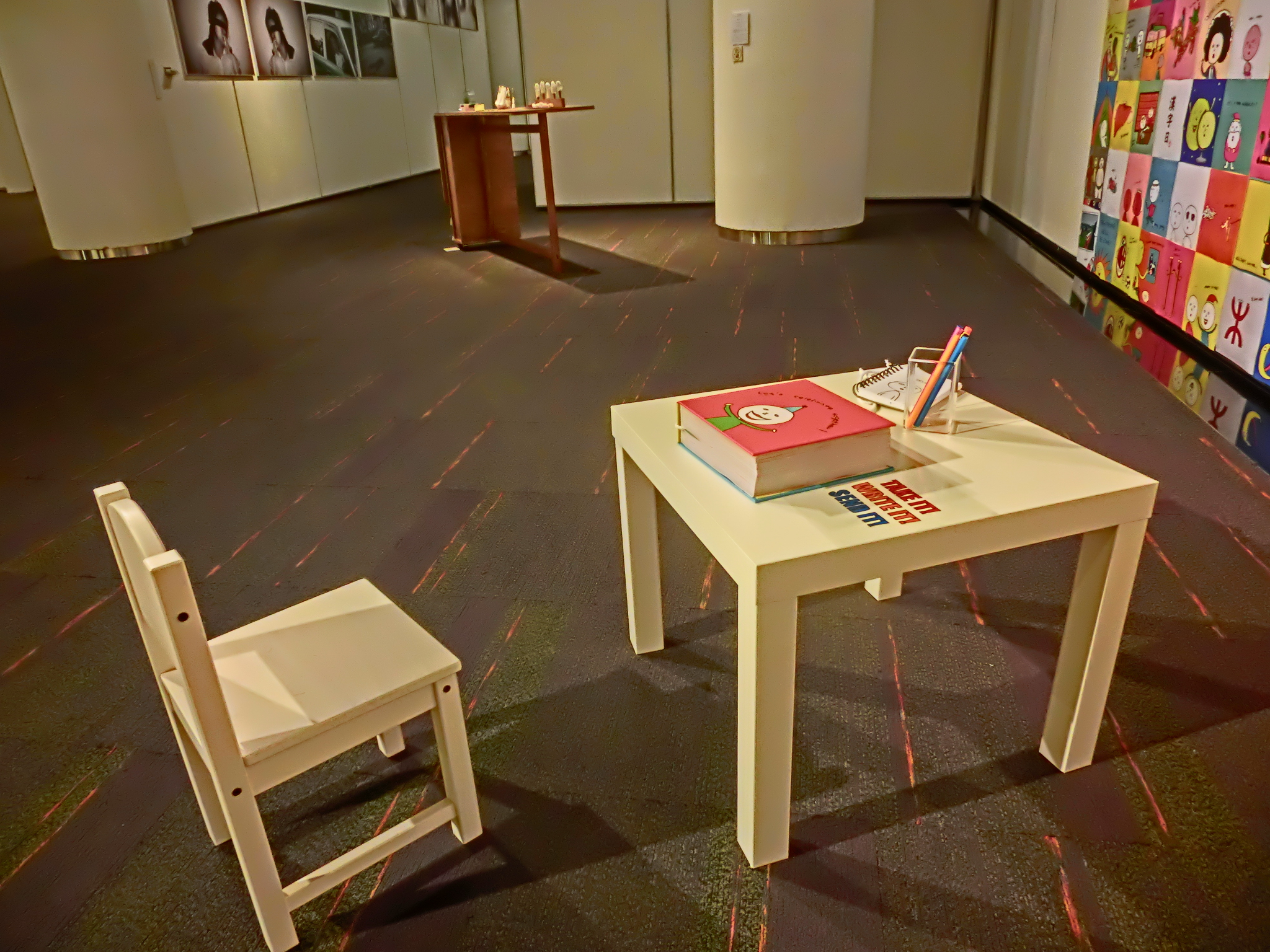 香港大會堂低座展覽廳, Exhibition Hall, Lower block of City Hall, Central, Hong Kong